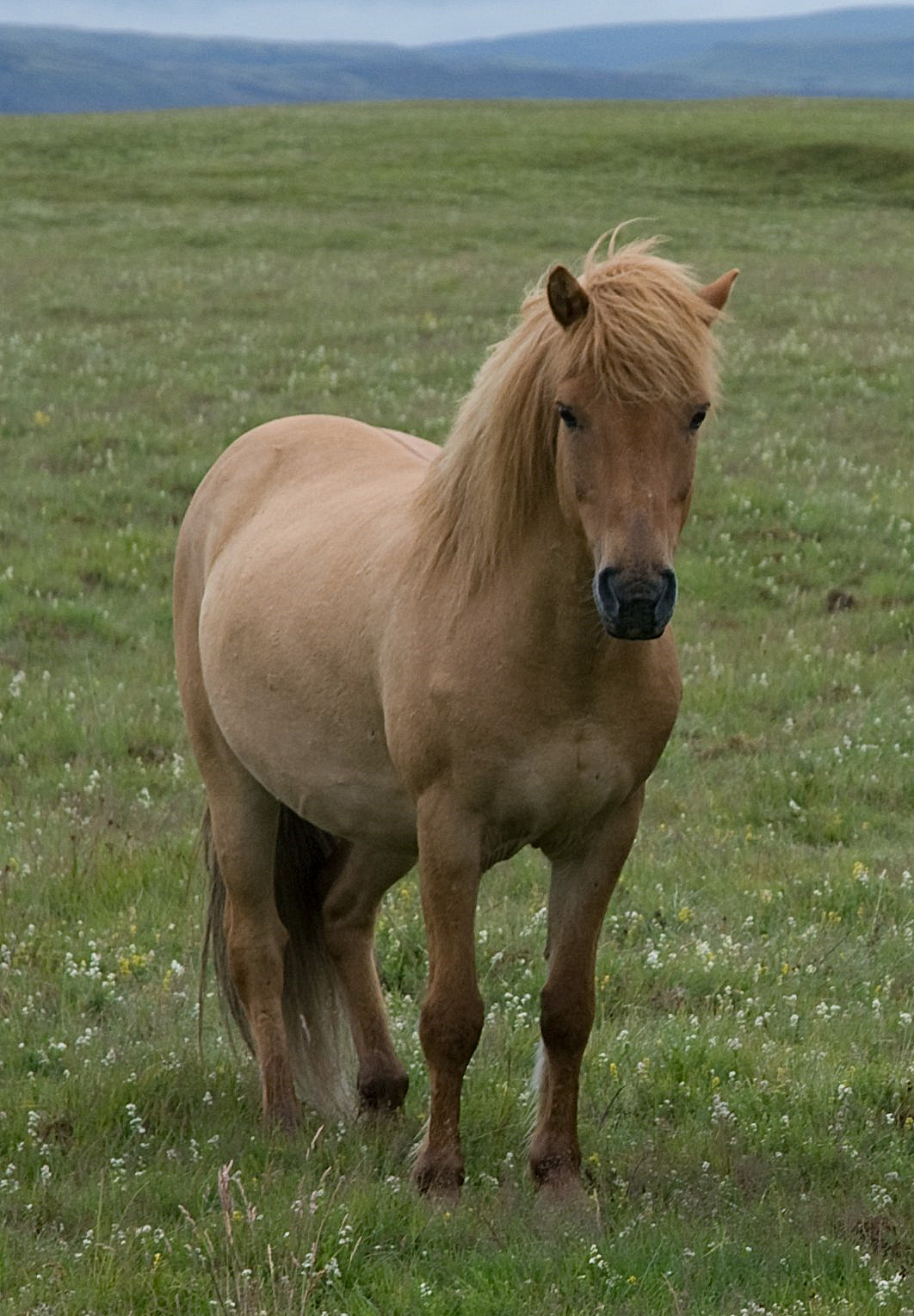 An Icelandic horse in Iceland.